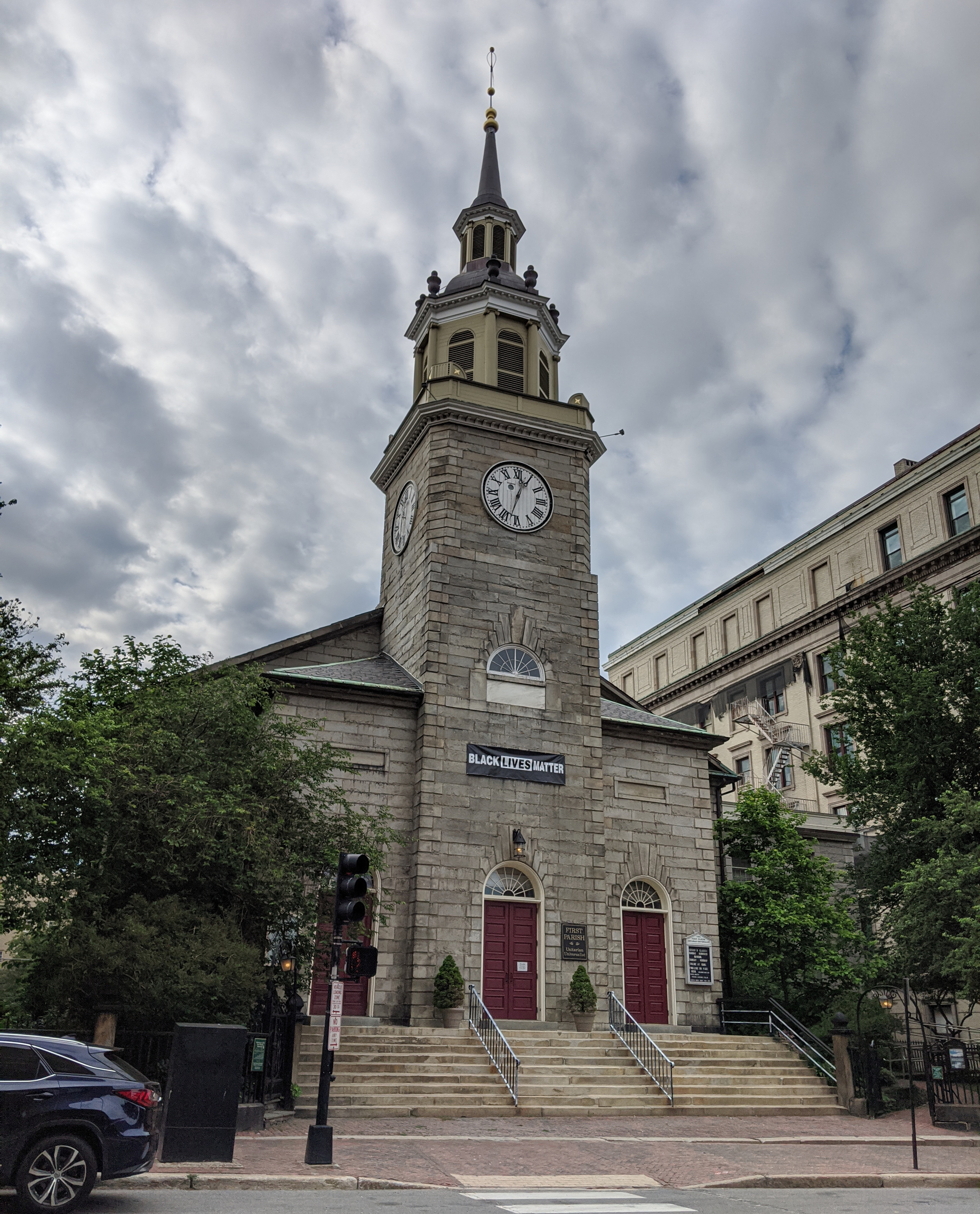 Photograph of the First Parish Church on Congress Street at the head of Temple Street in Portland, Maine, USA, viewed from Southwest corner of Temple and Congress Streets. Photo taken with a Google Pixel phone on June 27, 2020.